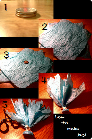 image of making jegi, followed in the steps indicated in the Jegichagi entry.